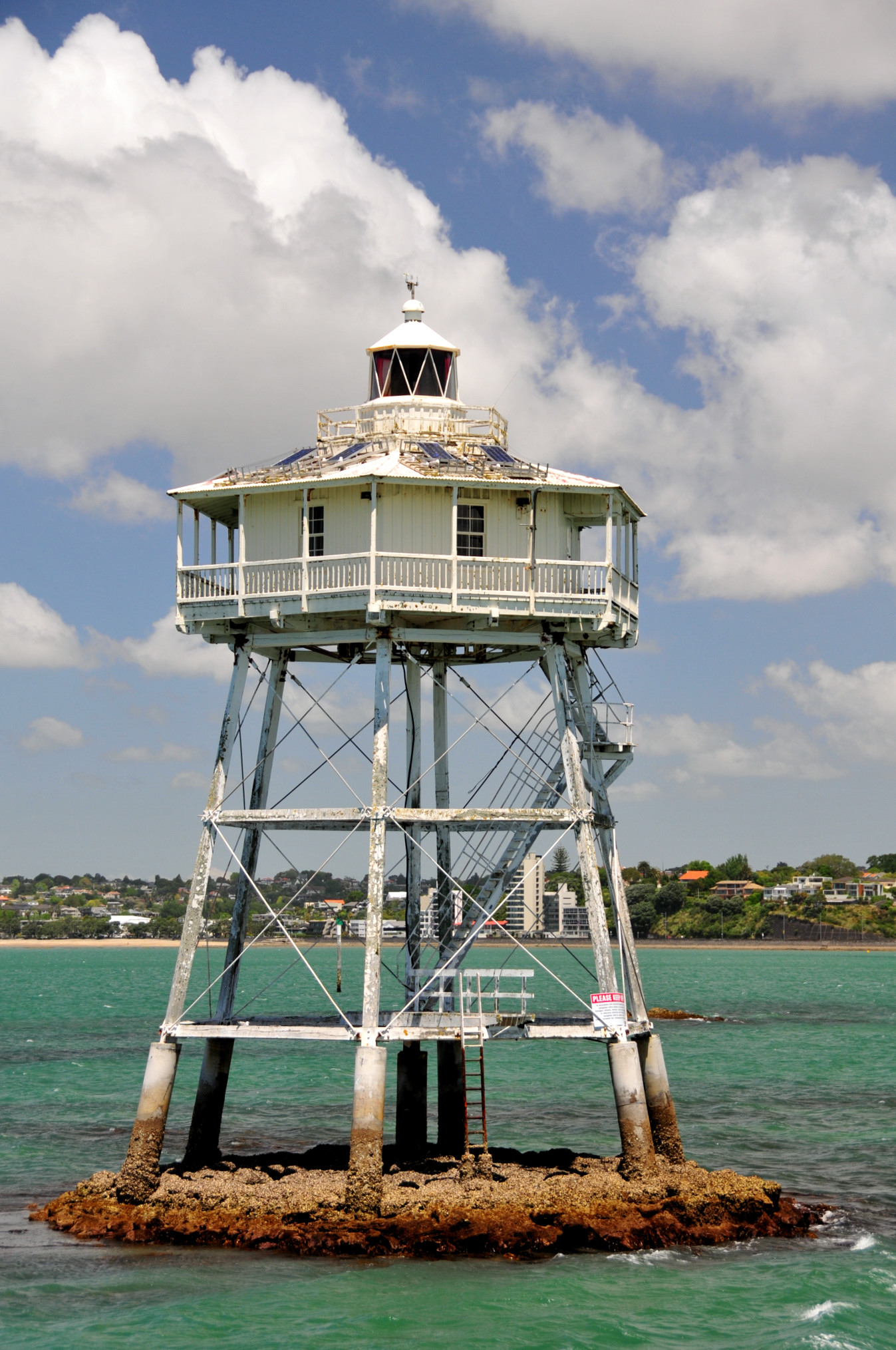 Te Toka a Kapetaua: Last surviving wave washed wooden cottage type lighthouse in New Zealand and one of only a few worldwide. Ponui Passage, Waitemata Harbour, Auckland. Named after Royal Navy officer, Lieutenant P.C.D. Bean, of HMS Herald, who helped to survey and chart Waitemata Harbour in the 1840s. Opened by Hugh Brown, the first keeper, with its English kerosene lamp of 350 candlepower.